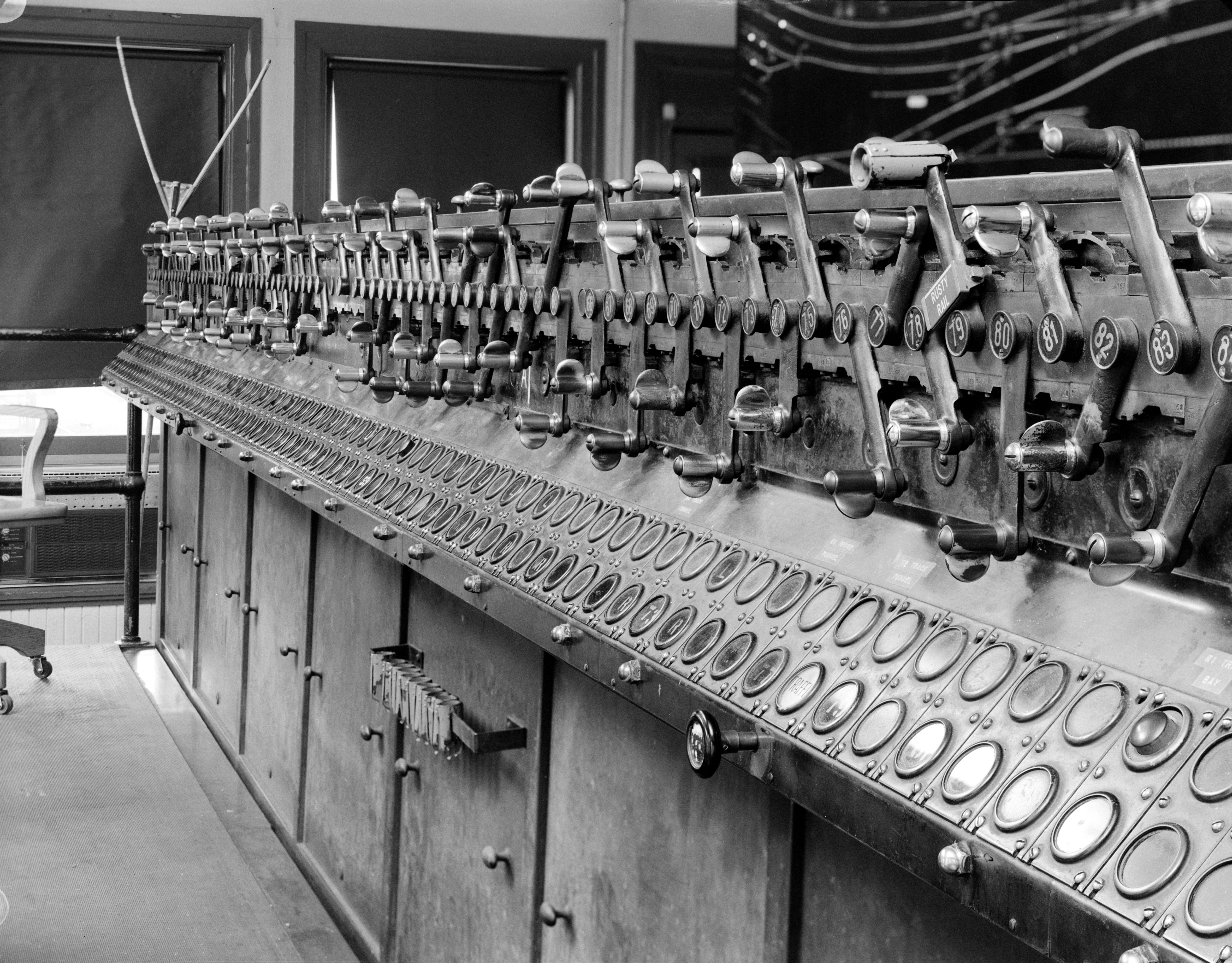 View of Model 14 electro-pneumatic interlocking machine manufactured by Union Switch & Signal Co. Installed at Union Junction Interlocking Tower, Baltimore, Maryland in 1935 for the Pennsylvania Railroad. The tower was closed in 1987. Cropped photo.